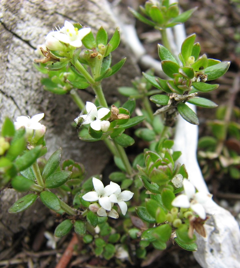 Asperula gunnii Baw Baw National Park, Victoria, Australia